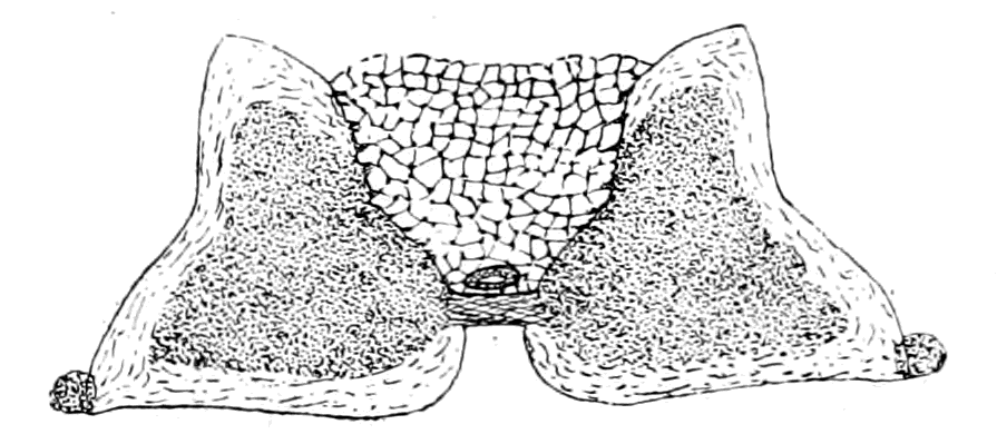 Fig. 23.—Section through Rhomboidal Sinus of Bird.